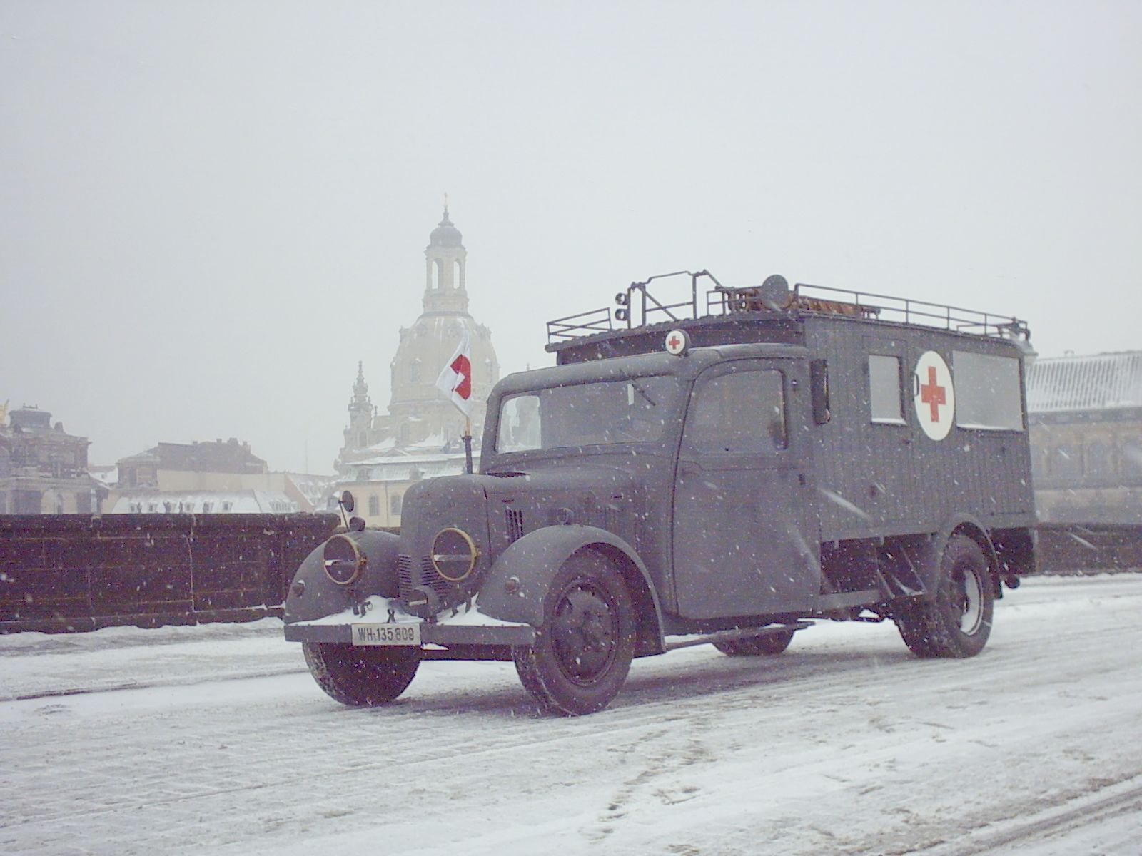 Phänomen Granit 30 in front of the Dresden Frauenkirche during the shooting of the motion picture Dresden.